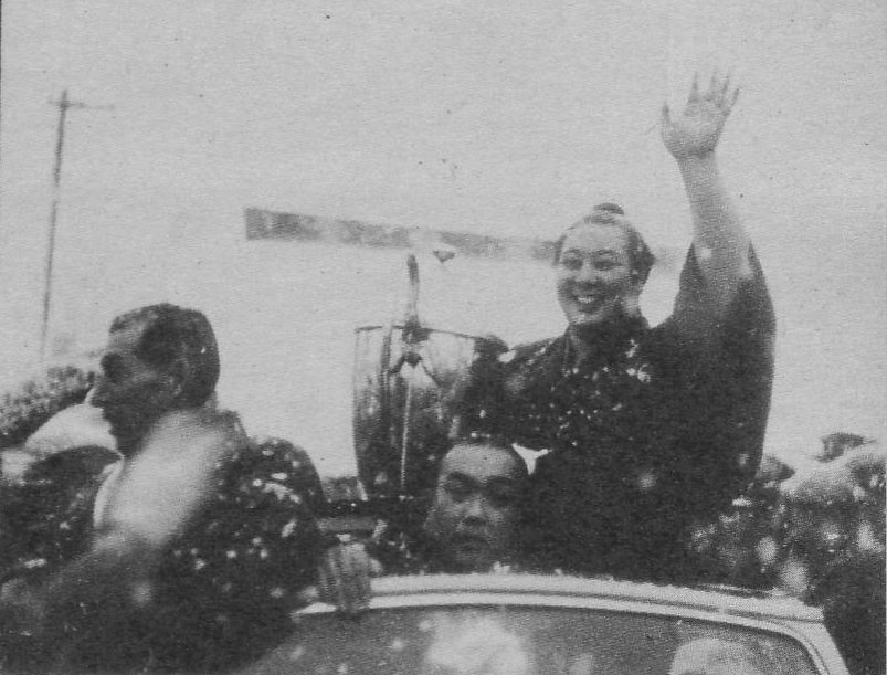 Victory parade from Yoshibayama Junnosuke, Yokozuna.